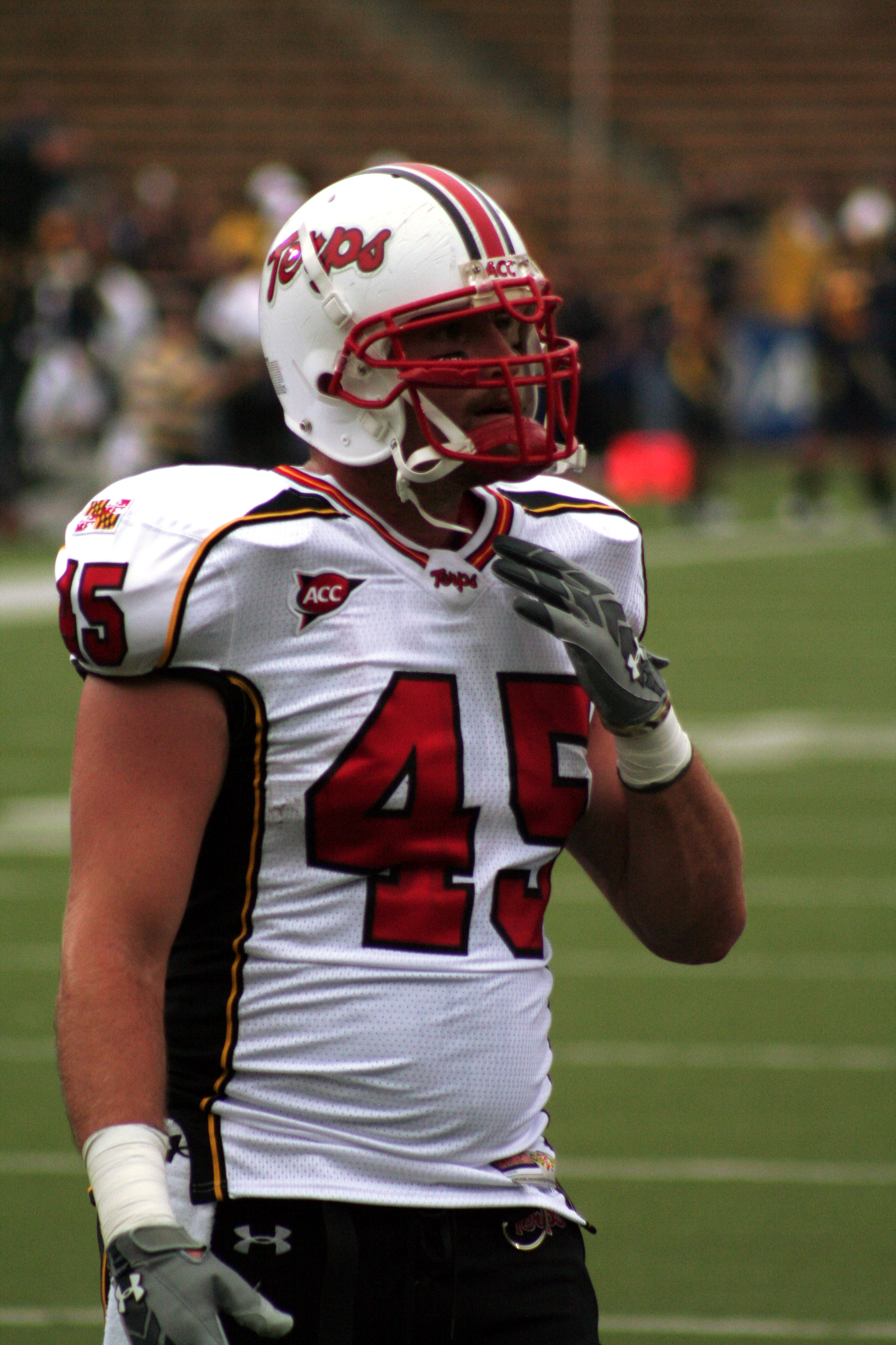 Maryland tight end Tommy Galt before the game against California at Berkeley on September 5, 2009.